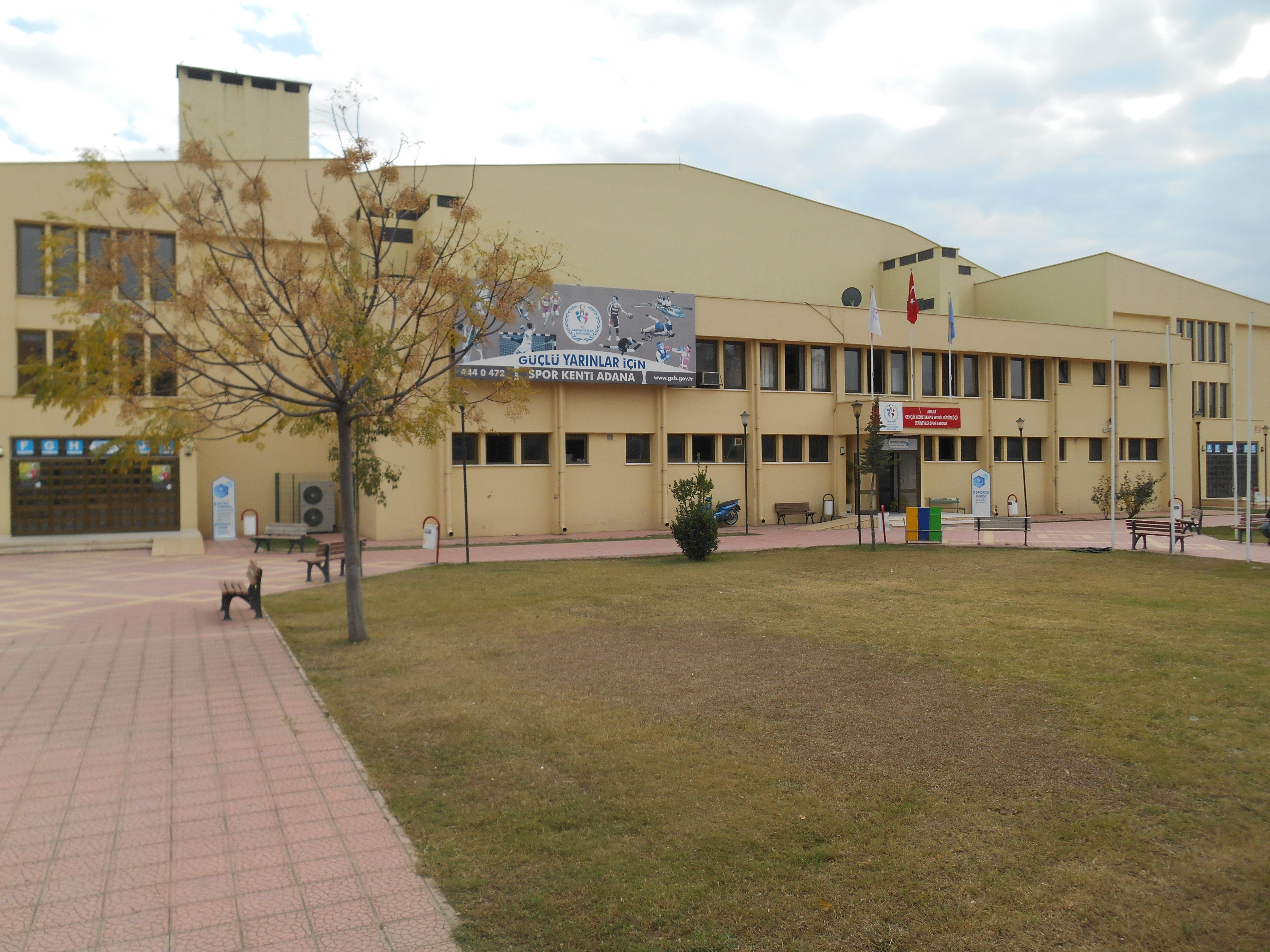 Exterior view